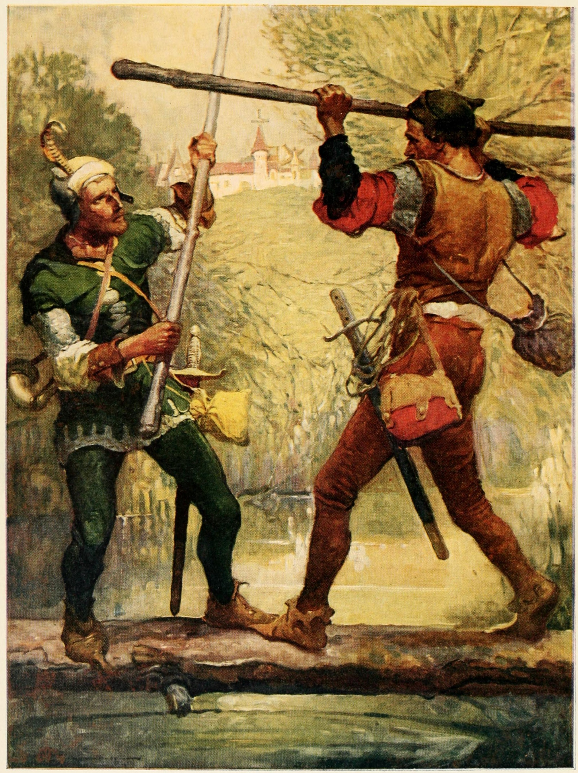 Robin Hood and Little John. From the cover and frontispiece of a 1921 edition (source) of the 1912 novel Bold Robin Hood and His Outlaw Band: Their Famous Exploits in Sherwood Forest, written and illustrated by Louis Rhead.Link to digitized edition of the 1921 book.